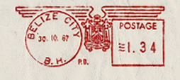 Meter stamp catalog image, Belize type A1 in color